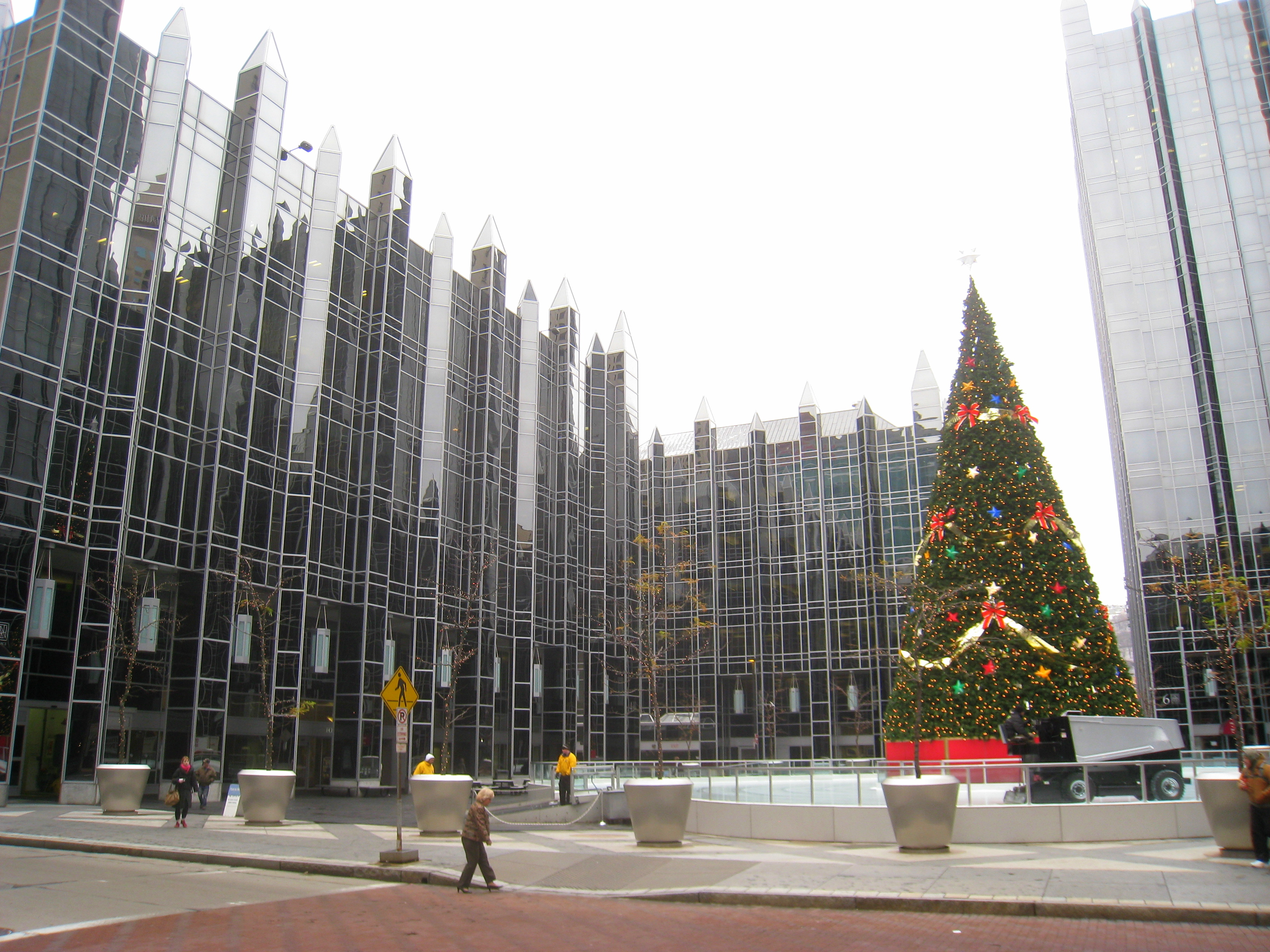 PPG Place, Pittsburgh, Pennsylvania, USA.